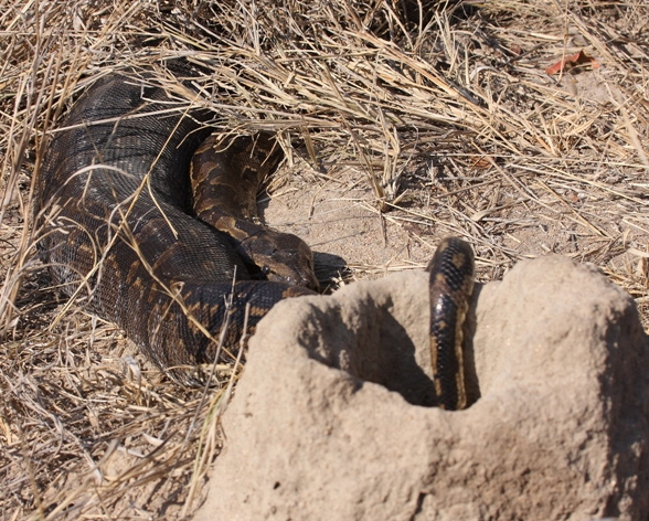 Southern African Rock Python (Python natalensis)- probably a pregnant female - in front of its burrow in Kruger National Park, South Africa. This specimen is nearly black. This color change is typical for females of this species during pregnancy and brooding. Additionally the second half of the body of this python seems fat, as if it has some eggs in it. An other hint is the date: 09. 26. 2009. According to Alexander (2007) the season for egg laying is from September to December in the north of Sout Africa. G. J. Alexander: Thermal Biology of the Southern African Python (Python natalensis): Does temperature limit its distribution? In: R. W. Henderson and R. Powell (Eds.): Biology of the Boas and Pythons. Eagle Mountain Publishing Company, Eagle Mountain., 2007, ISBN 978-0-9720154-3-1: pp 51-75